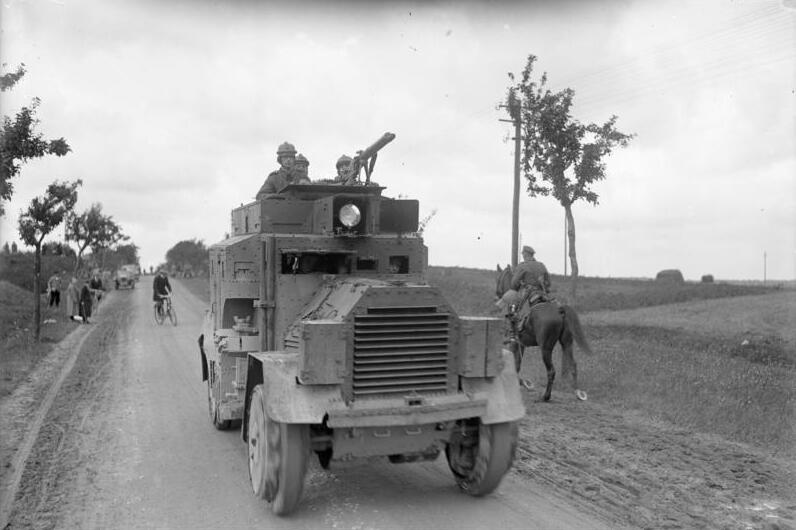 Gepanzerter Kraftwagen (SdKfz.3)